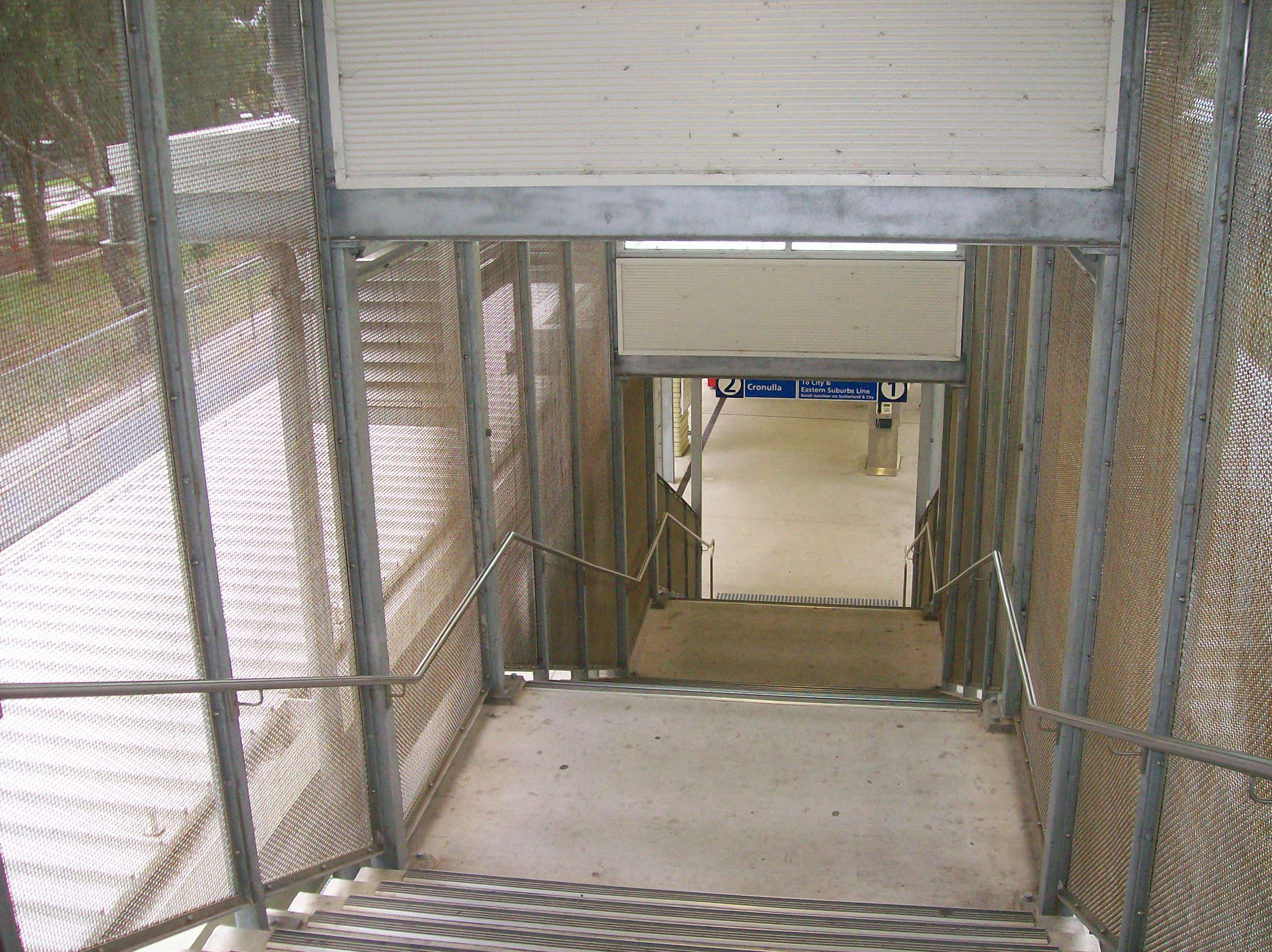 Woolooware railway station stairs to platforms